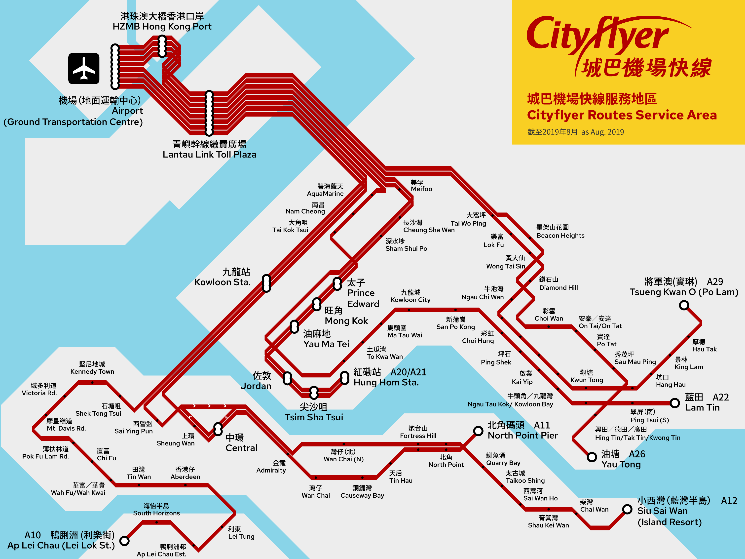 Route map of Cityflyer, a airport bus brand uses by Citybus (Hong Kong).